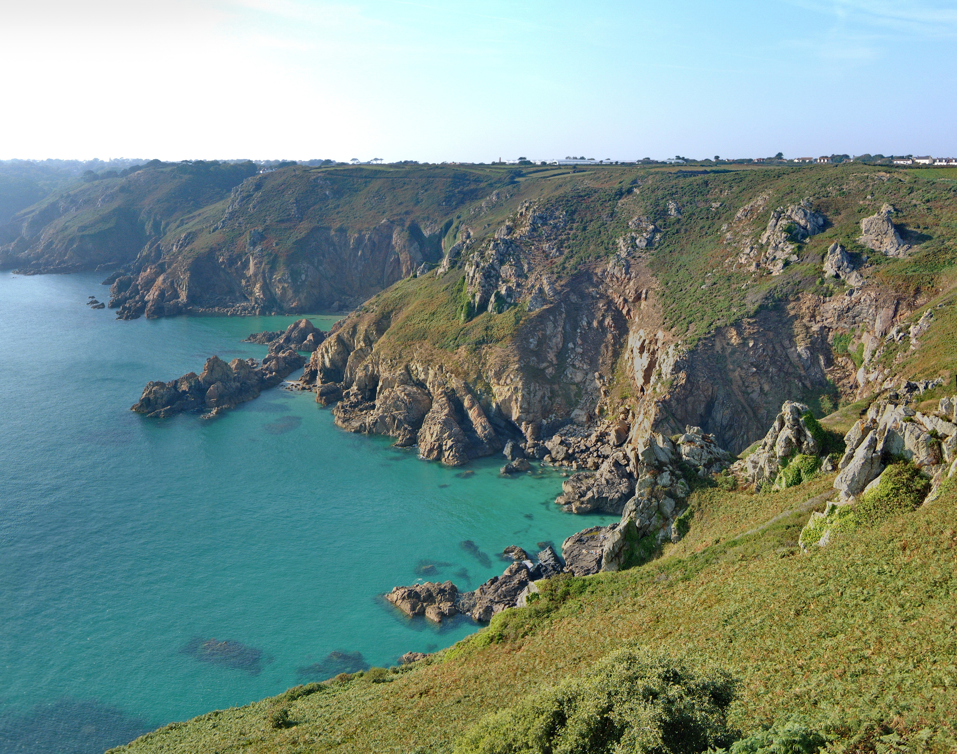 9 Images in 3 x 3 grid autostitched together. Happytellus